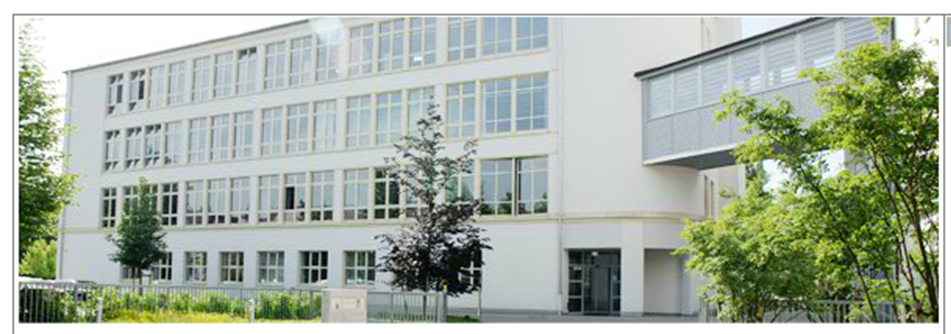 Shows Qestronic Headquarter in Geisenhausen